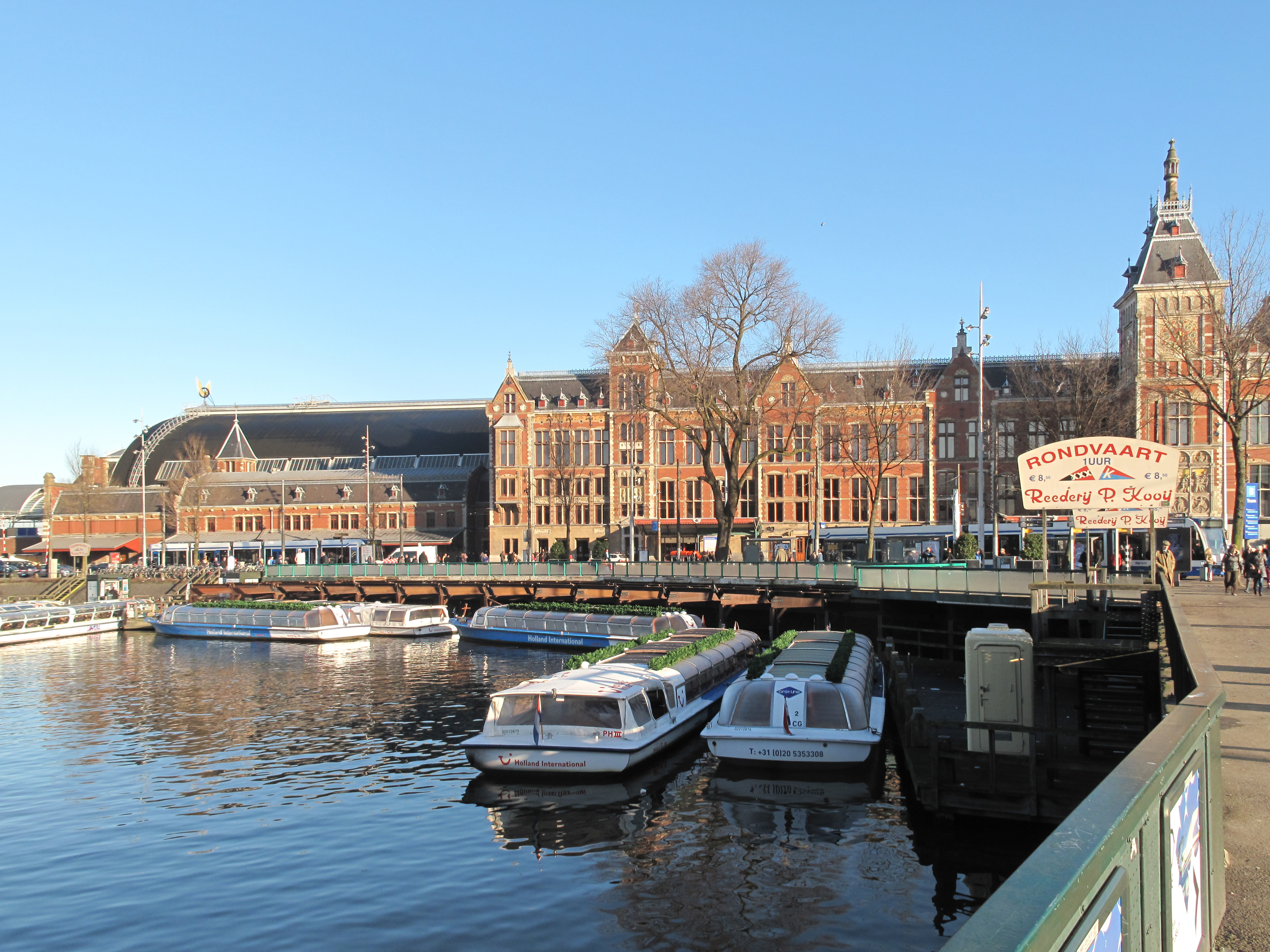 Amsterdam, boats near railway station